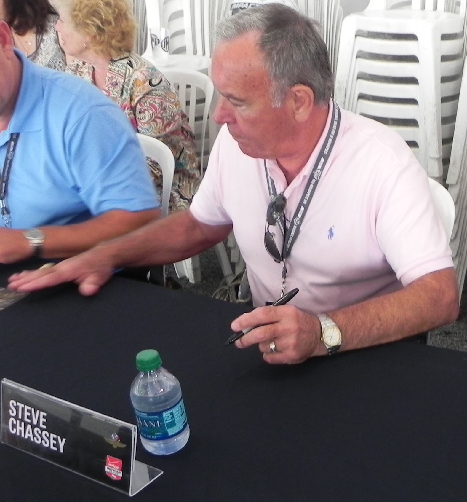 Indy500 driver Steve Chassey at the 2014 Indianapolis 500.